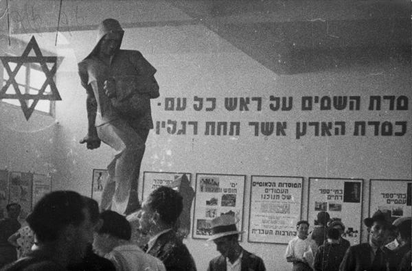 Photograph